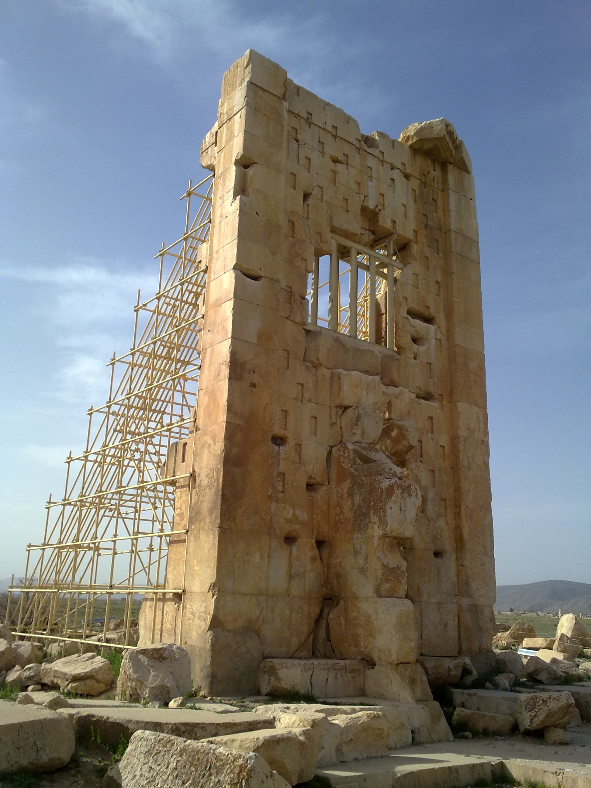 Tomb of Cambyses I, Pasargad, Iran